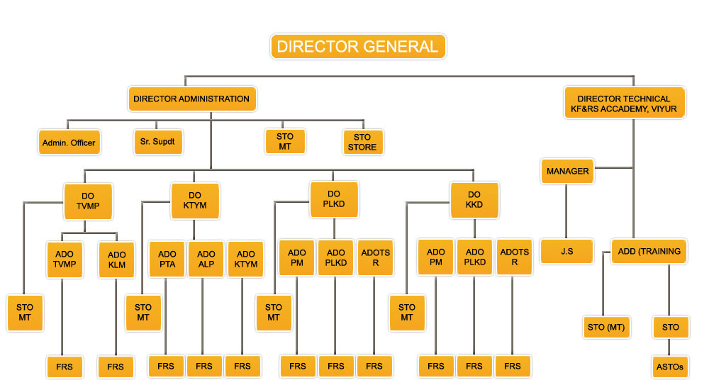 organisational structure